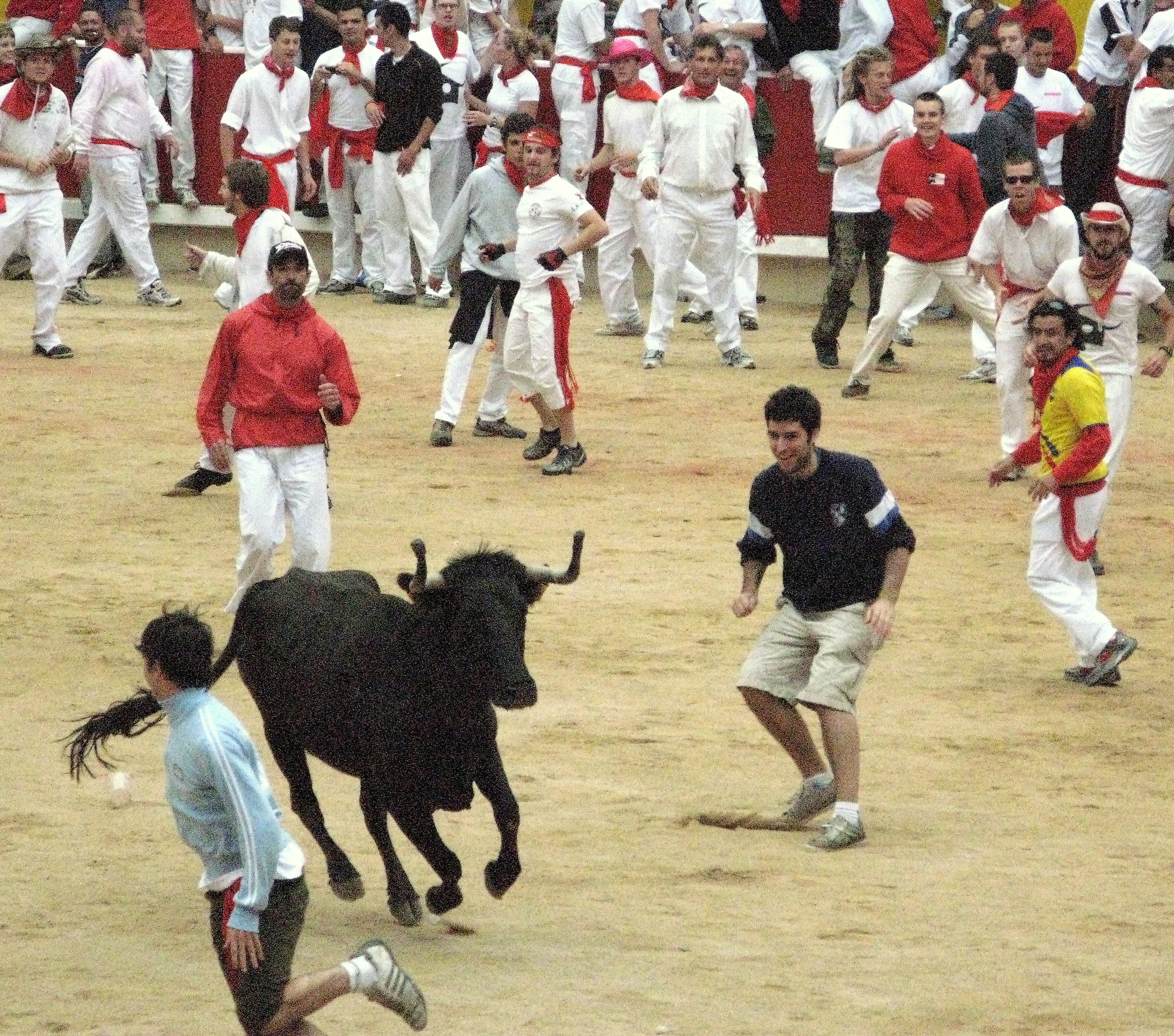 Sanfermines Vaquillas in Pamplona, Spain.